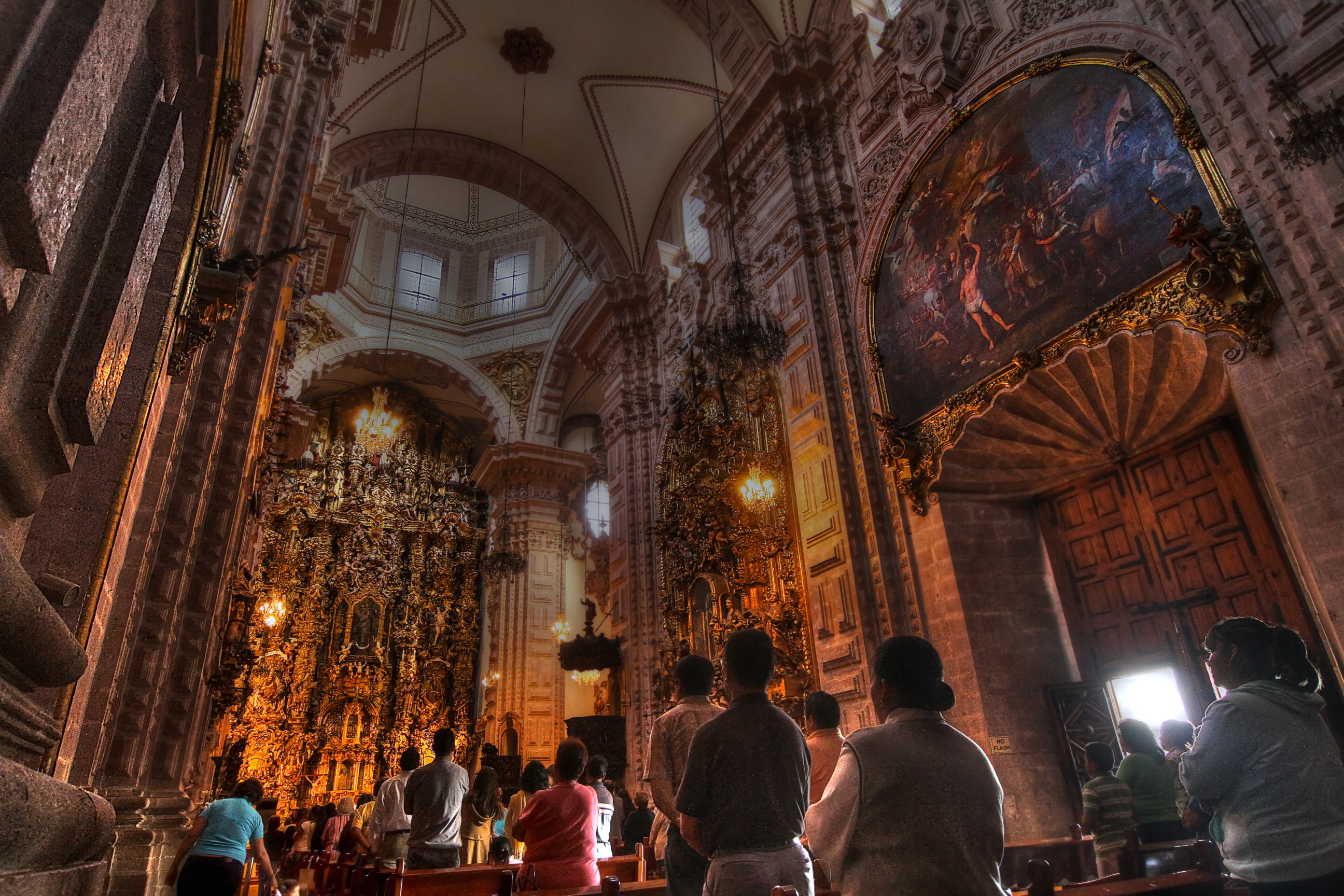 Inside the Santa Prisca, Taxco, Guerrero, Mexico. Shoot with HDR tecnique.